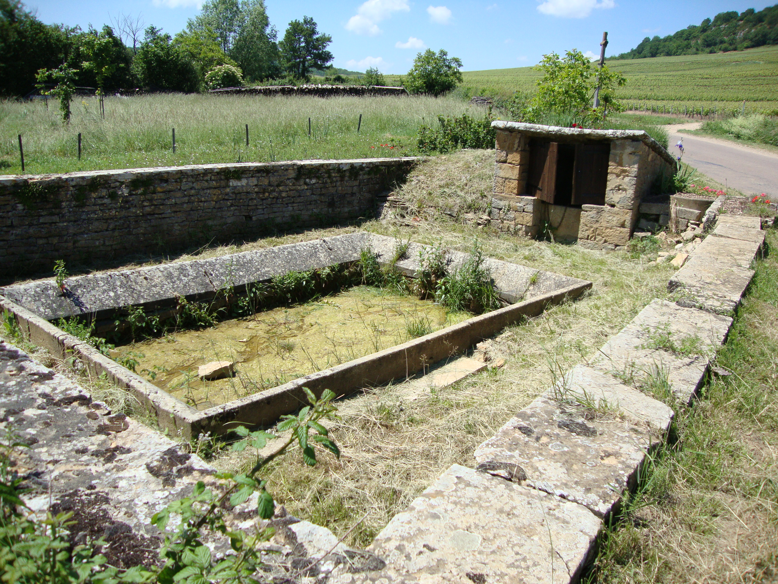 Saules (Saône-et-Loire, Fr) old wash house